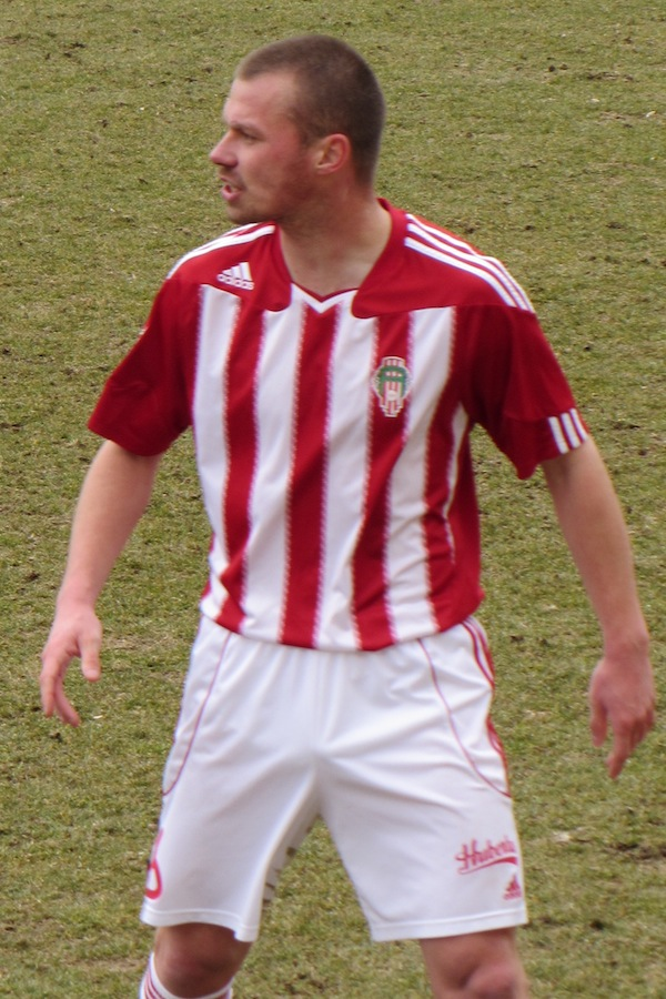 Pavel Besta of FK Viktoria Žižkov during a match against FK Baník Sokolov